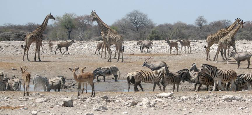 (Scott A. Christy, photographer is part of our group researching for a wiki page on Namibian Communal Wildlife Conservancies)